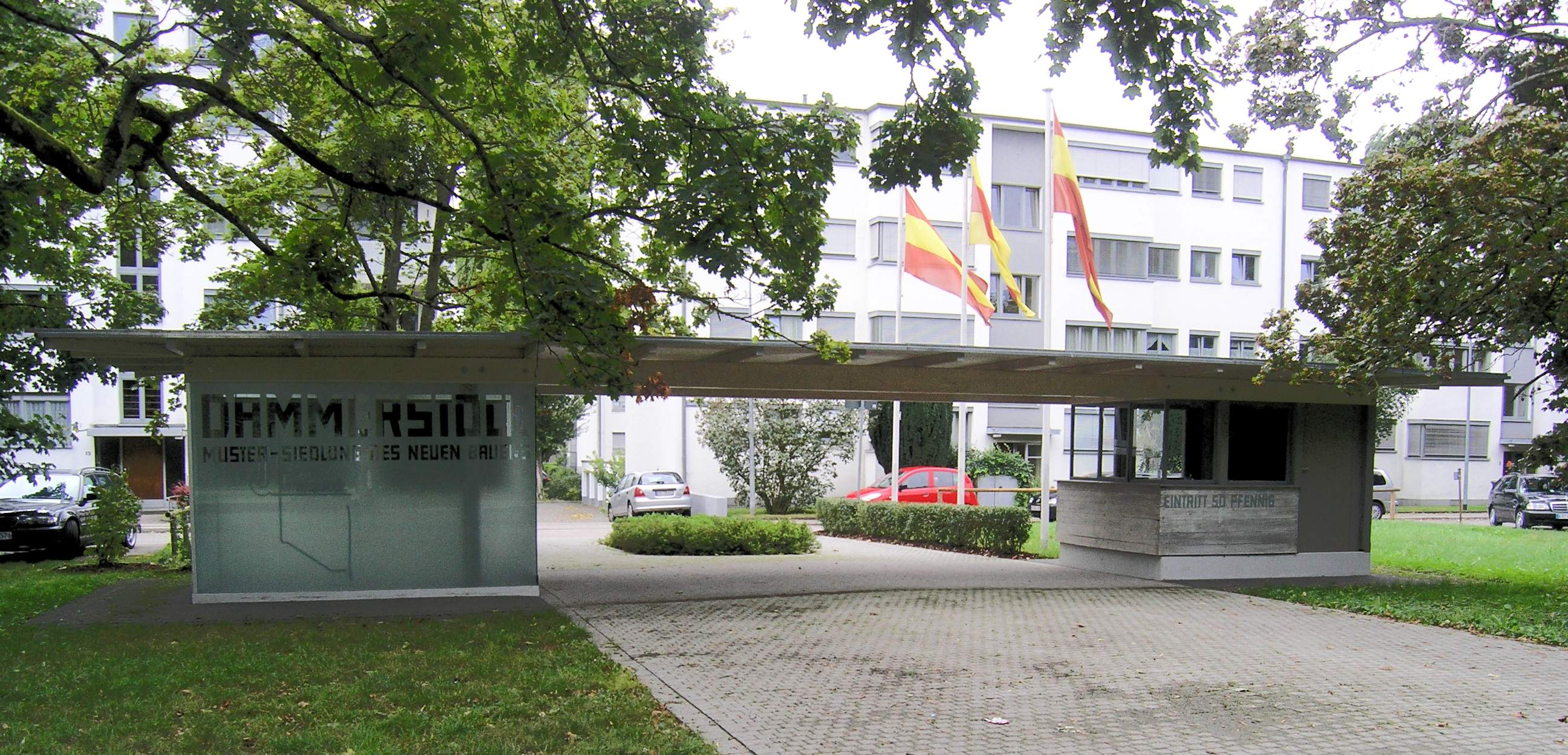 Karlsruhe-Dammerstock